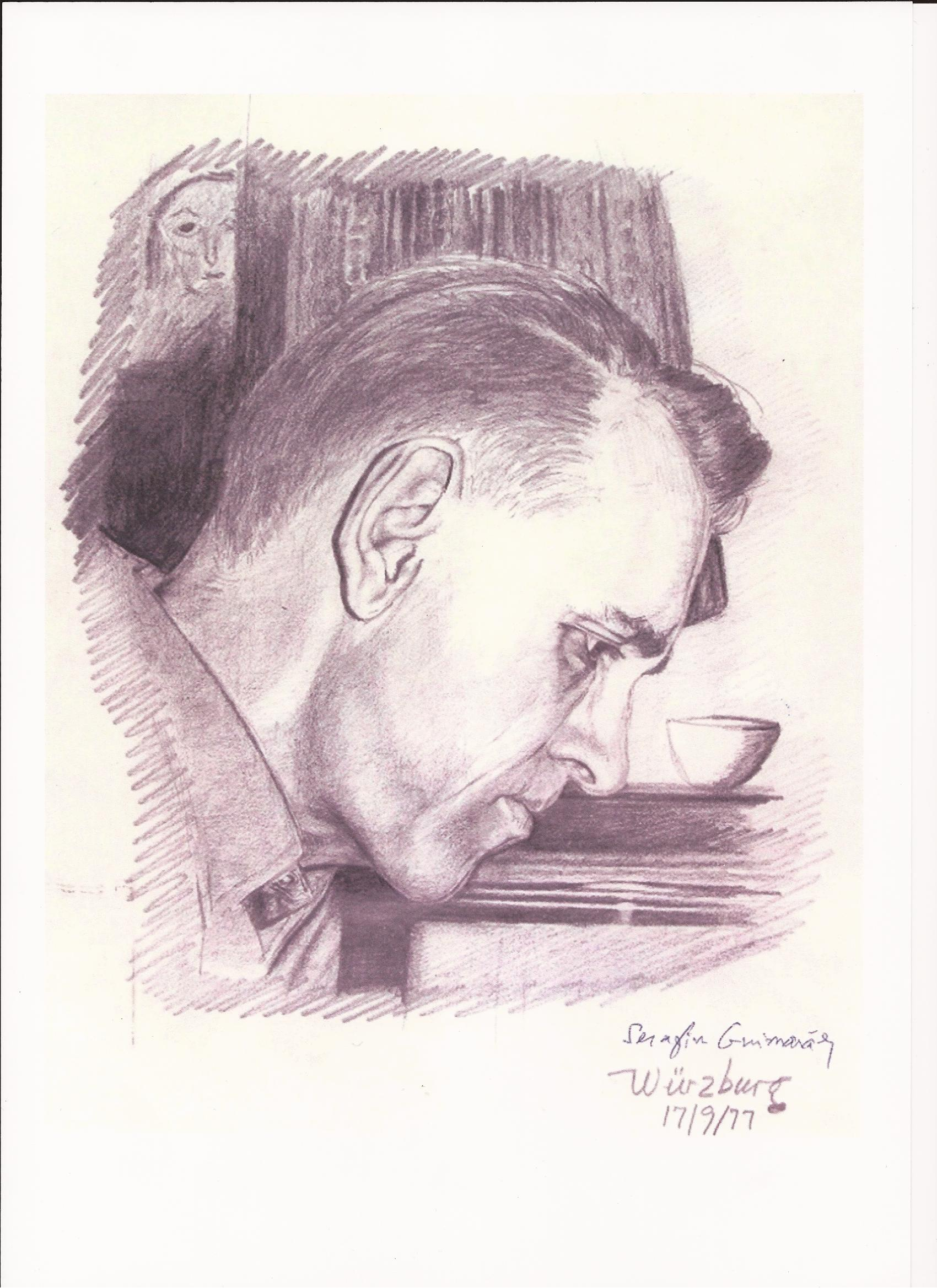 Drawing by Serafim Guimaraes showing Ullrich Trendelenburg